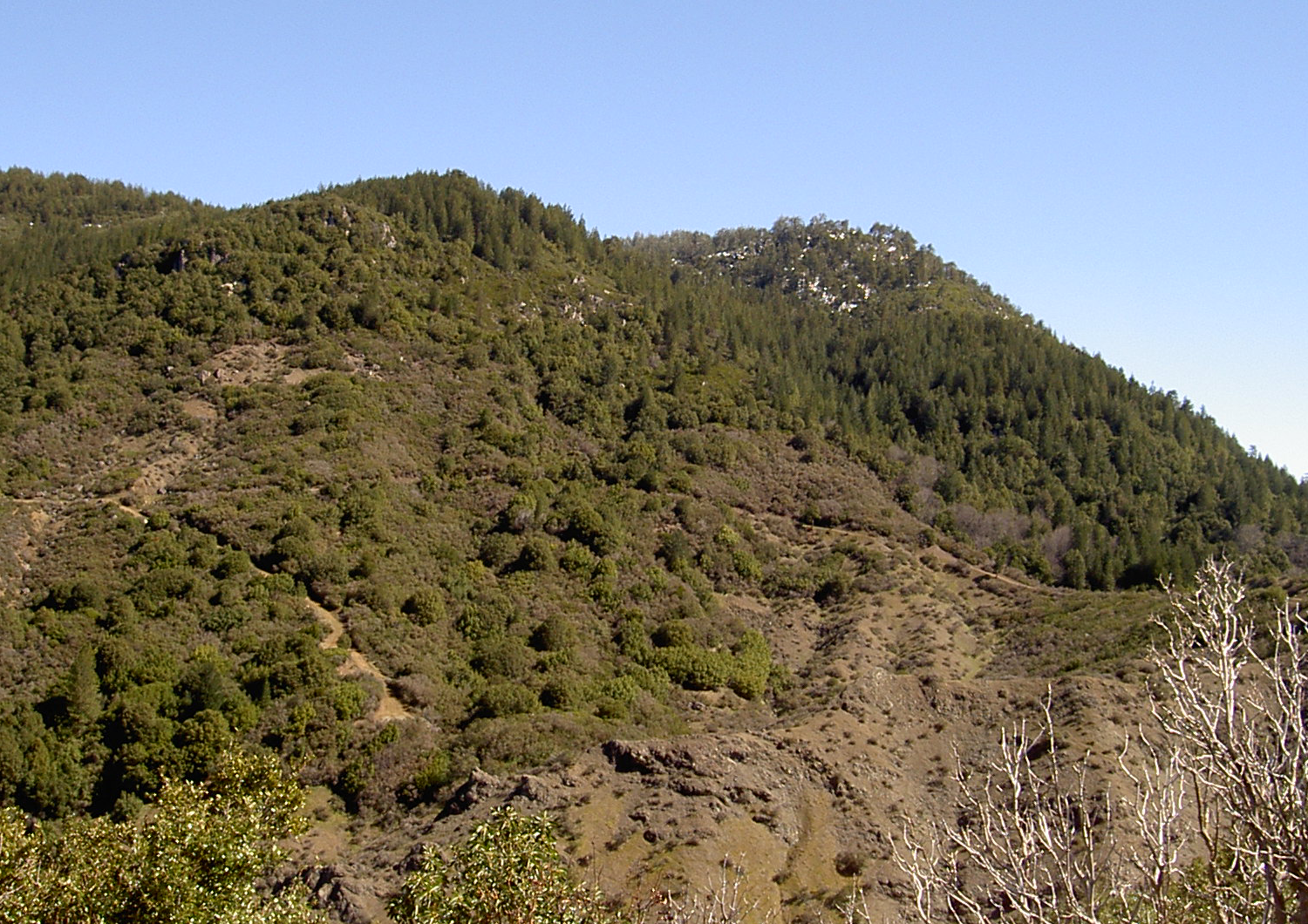 The Southwest peak of Cobb Mountain in the Mayacamas Mountains, on the Sonoma-Lake County line in northern California. The Southwest peak is the high point of Sonoma County. The main peak of Cobb Mountain is behind it. Photographed looking north from the helipad by Socrates Mine Road.